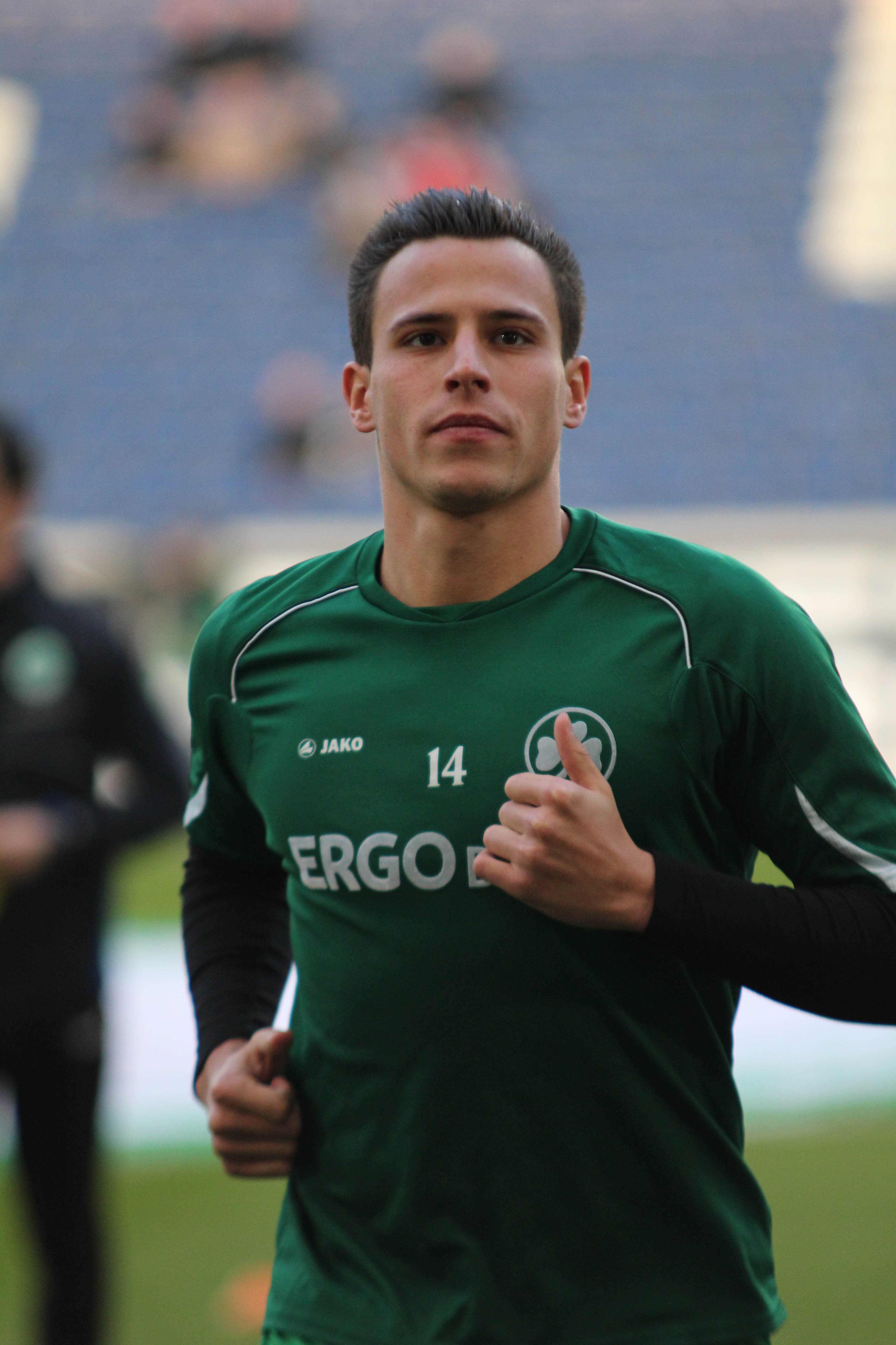 German footballer Edgar Prib, SpVgg Greuther Fürth